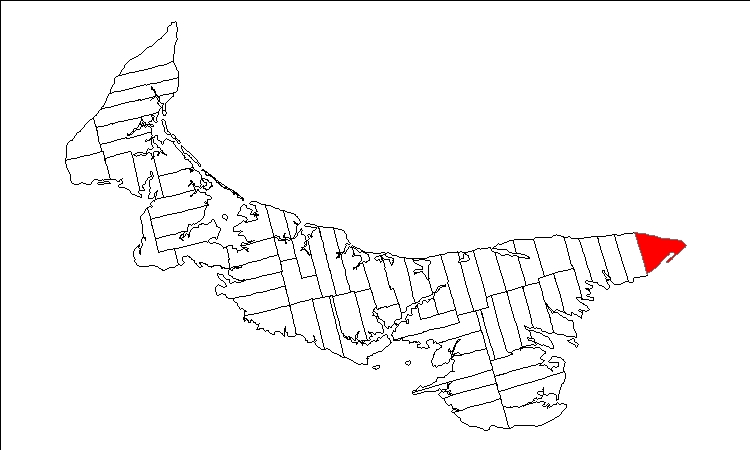 Public domain map of Prince Edward Island created by User:Plasma east with data courtesy of Geogratis, modified to show townships. Released under GFDL (self).